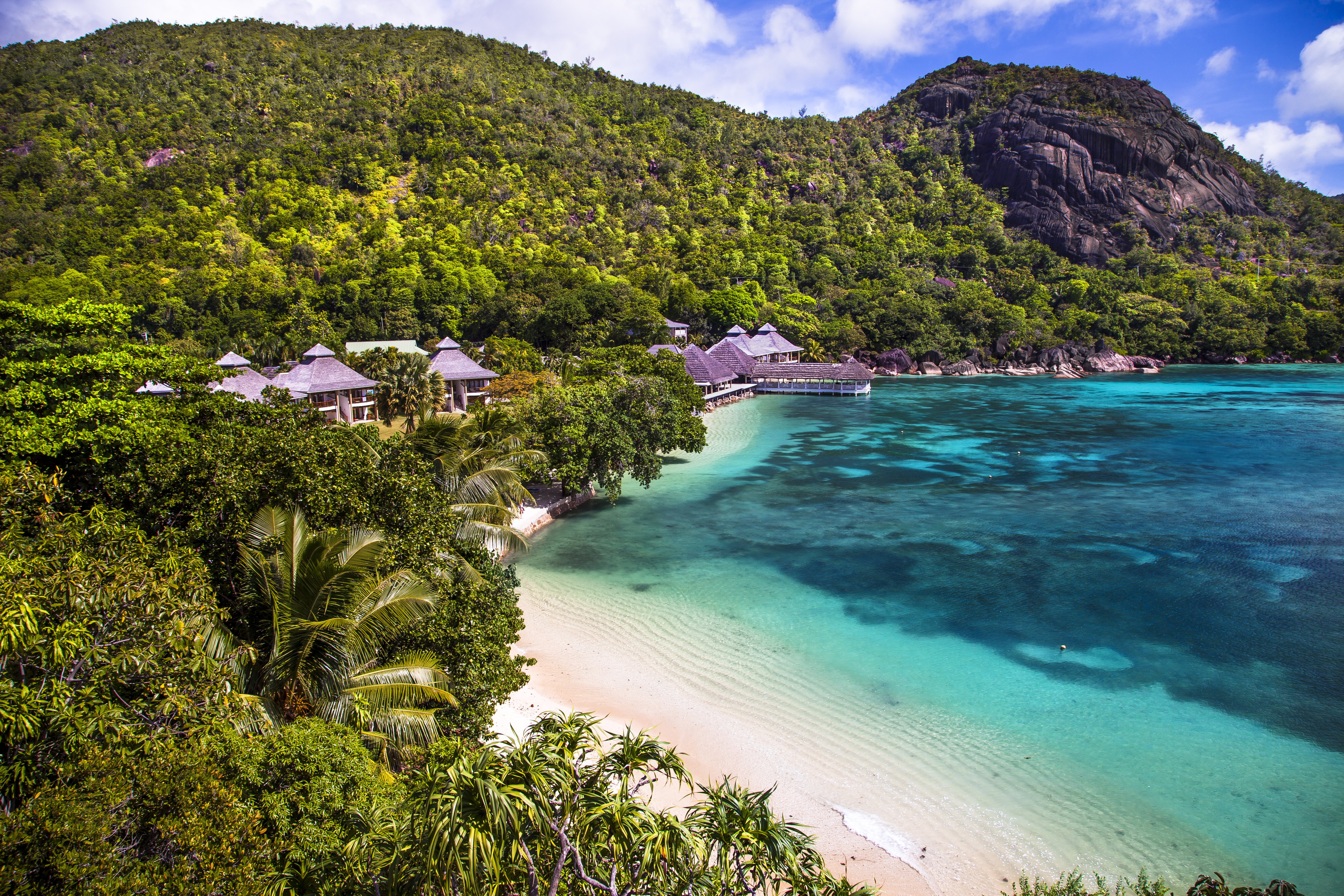 Last Minute Hotel Deals most popular tourist destinations in the world, no doubts about that. However, when planning your trip to Barcelona, you shouldn’t skip exploring the true reason Barcelona is as vibrant and colorful a city.